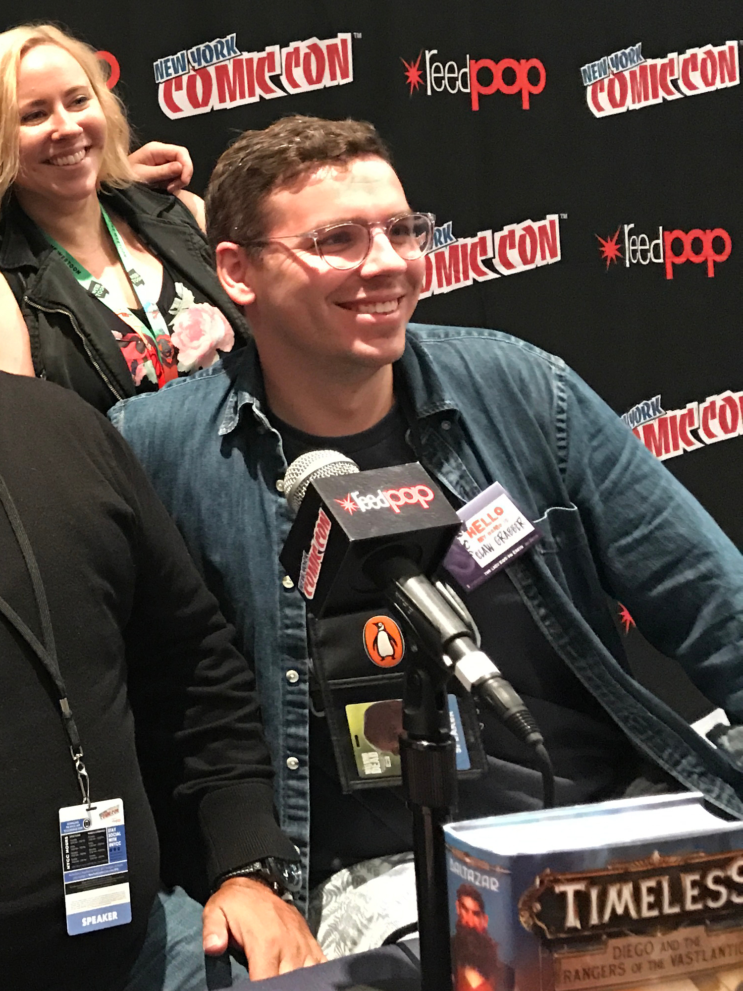 Max Brallier at the "A Fantastic Assortment of Fantasy" panel discussion at the Jacob K. Javits Convention Center in Manhattan on Sunday, October 8, 2017, Day 4 of the 2017 New York Comic Con. This photo was created by Luigi Novi. It is not in the public domain, and use of this file outside of the licensing terms is a copyright violation.